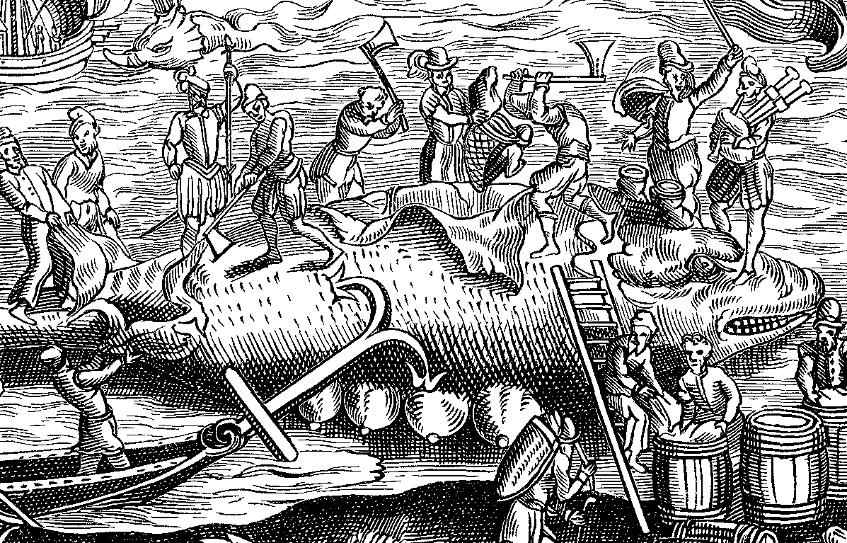 Whale-Fishing. Fac-simile of a Woodcut in the "Cosmographie Universelle" of Thevet, in folio: Paris, 1574. Project Gutenberg text 10940